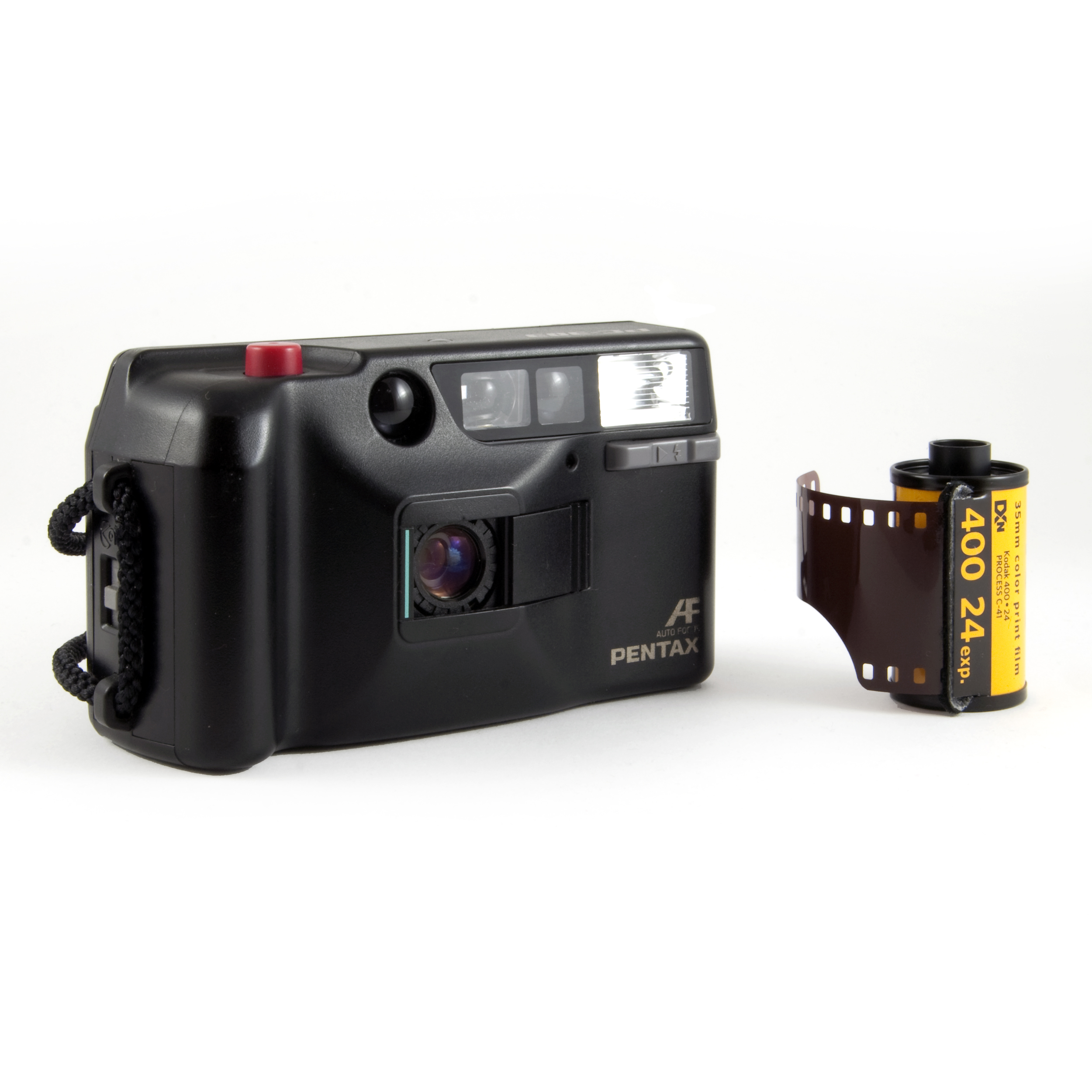 A Pentax PC-303 film camera, with 35mm film added for scale.